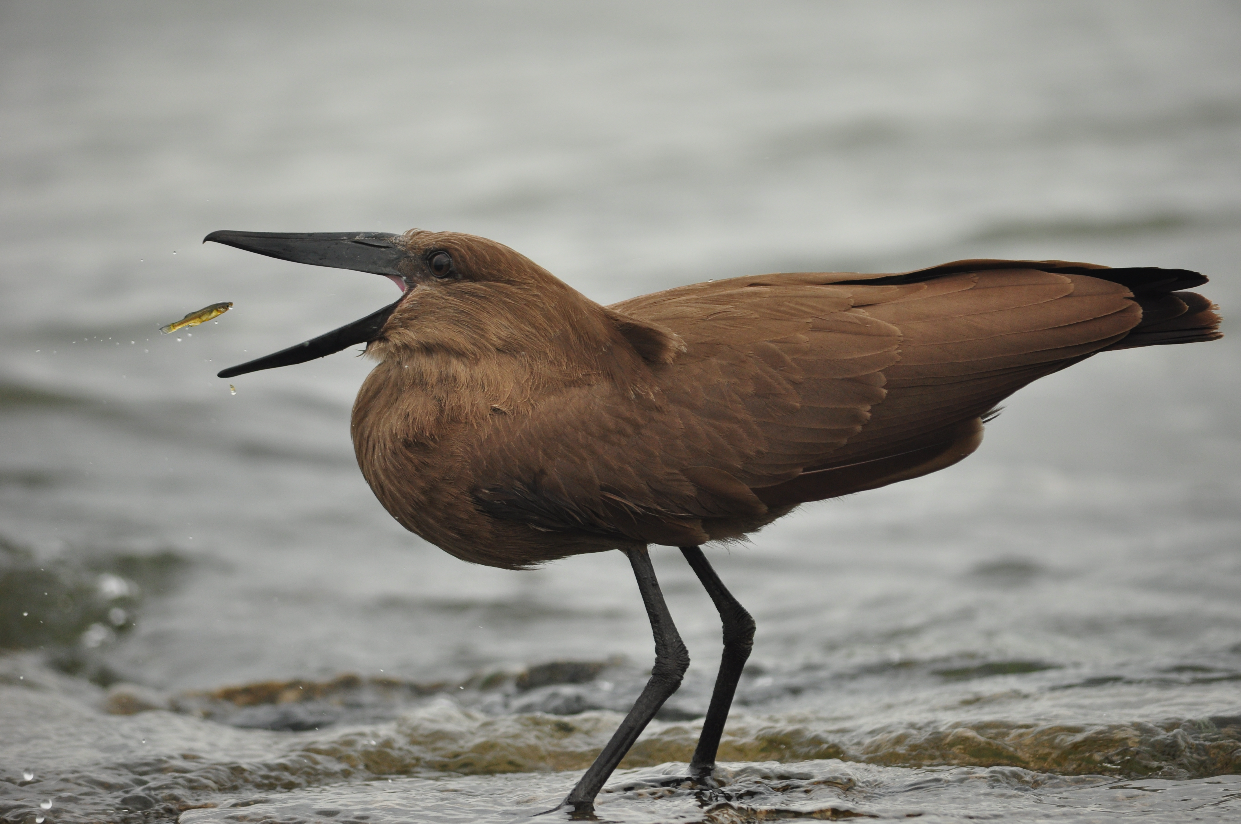 A hamerkop (Scopus umbretta) about to eat a fish This is an image of food from Ethiopia